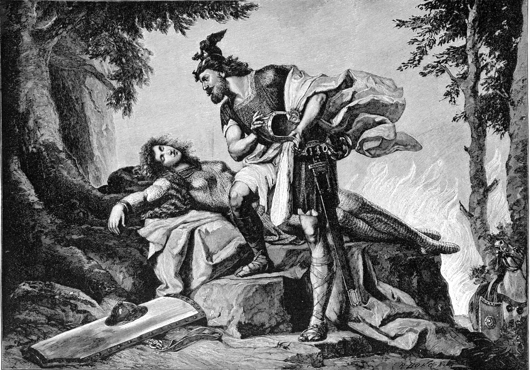 Siegfried (Sigurðr) awakens Brunhild (Brynhildr), a scene from Wagner's Ring and Norse mythology